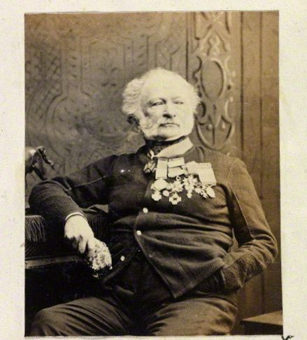 Decorated Peninsular War veteran